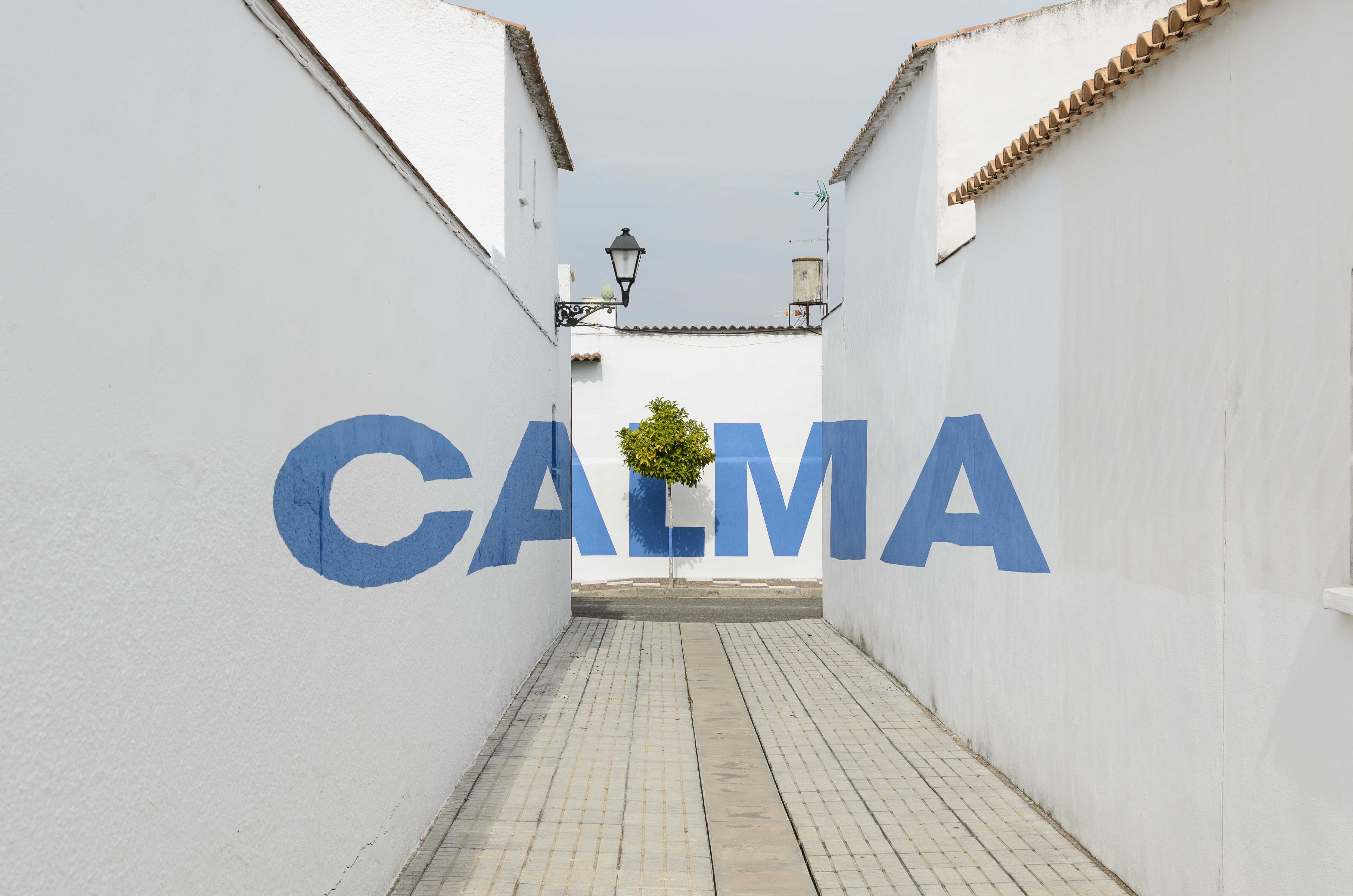 Anamorphic words in Maruanas, El Carpio. Cordoba, Spain.